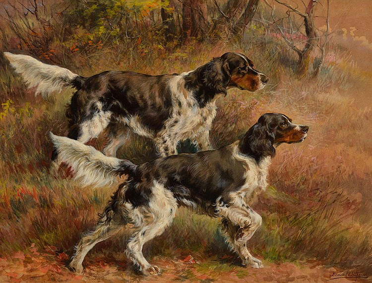 English Setters by Edmund Henry Osthaus, oil on canvas, 30 x 44 inches (76.2 x 111.8 cm), watercolor on paper, 24 x 32 inches